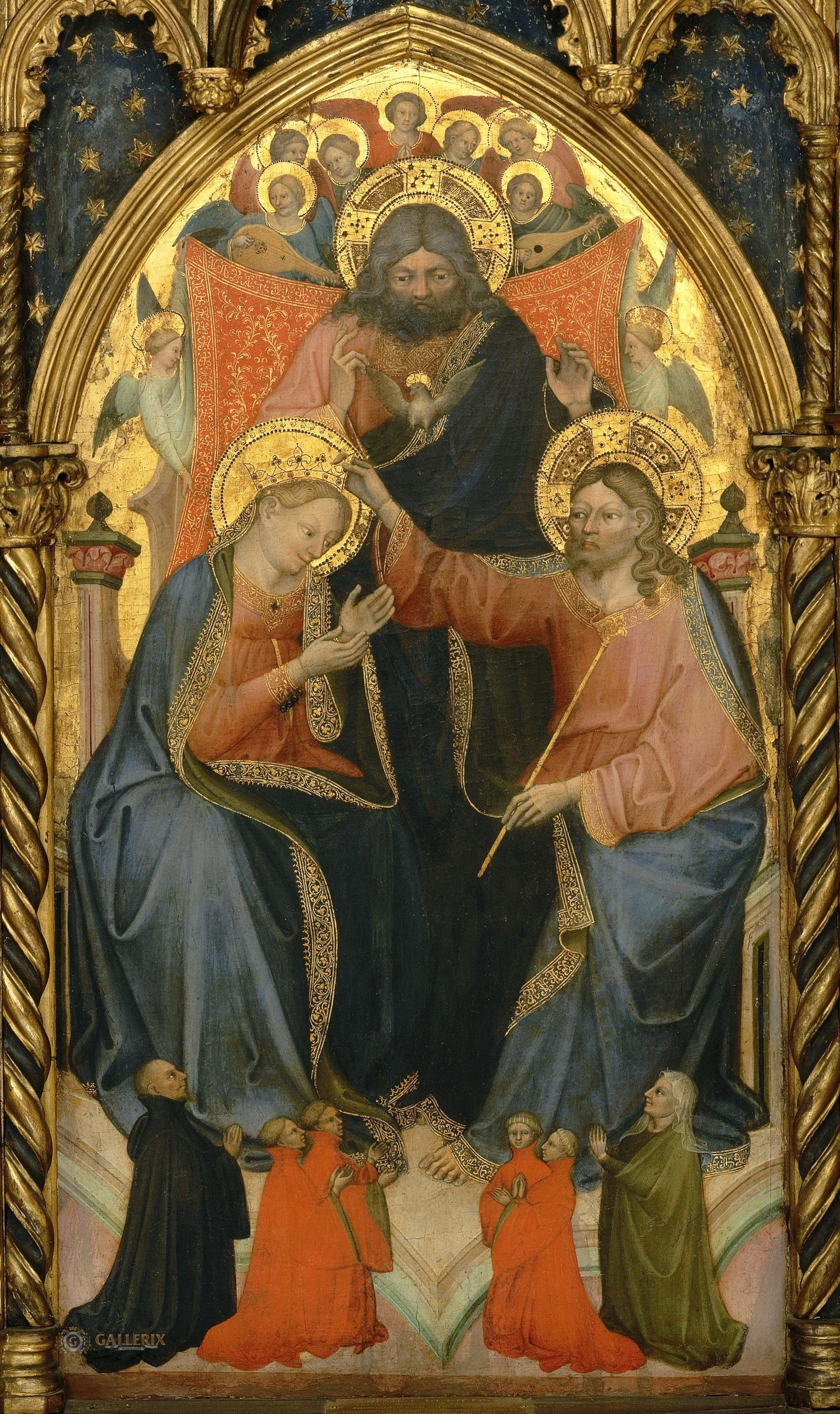 Nicolo di Pietro, Conoration of the Virgin, (cm 100 x 54), 1394-1404, Brera, Milan